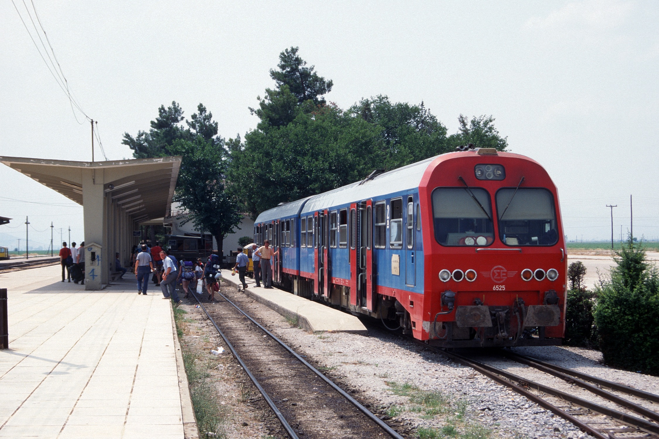 Paleofarsalos was the transit station between the Athens - Thessaloniki mainline and the Thessaly meter gauge line. A meter gauge DMU stands at the narrow gauge platform awaiting departure to Volos.